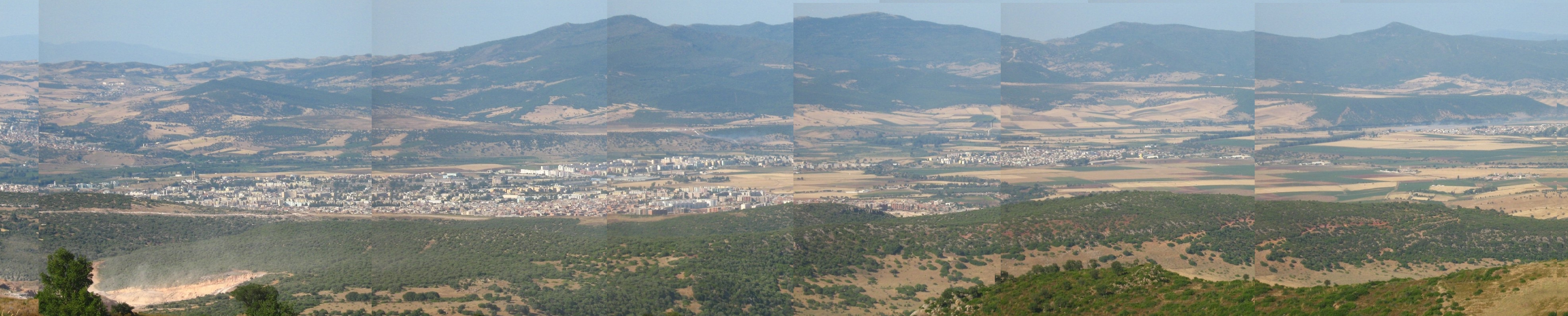 A panoramic view of Guelma Valley.